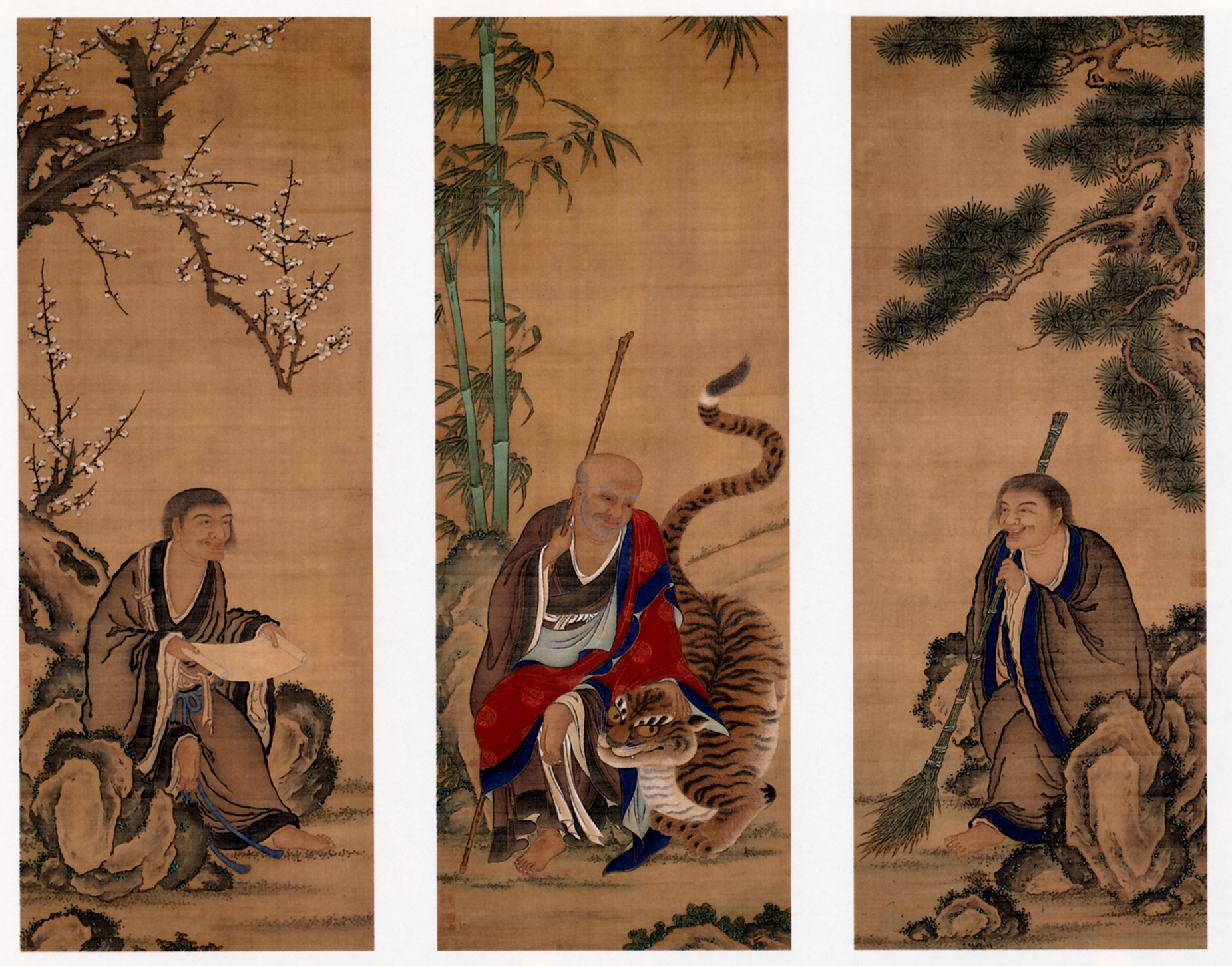 Fengkan Hanshan and Shade ,Ueno Jakugen,Triptych hanging scrolls,color on silk